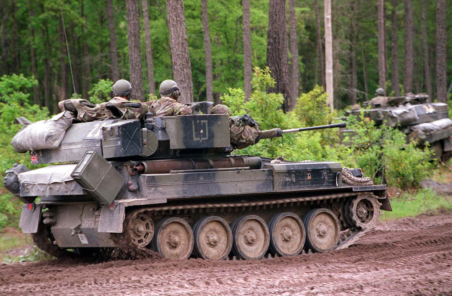 Marines of 45 Commando, British Royal Marines, drive their Scorpion vehicles through the Verona Loop training area, towards their staging area prior to their movement to Camp Davis, the staging area for further movement to Ft. Bragg.